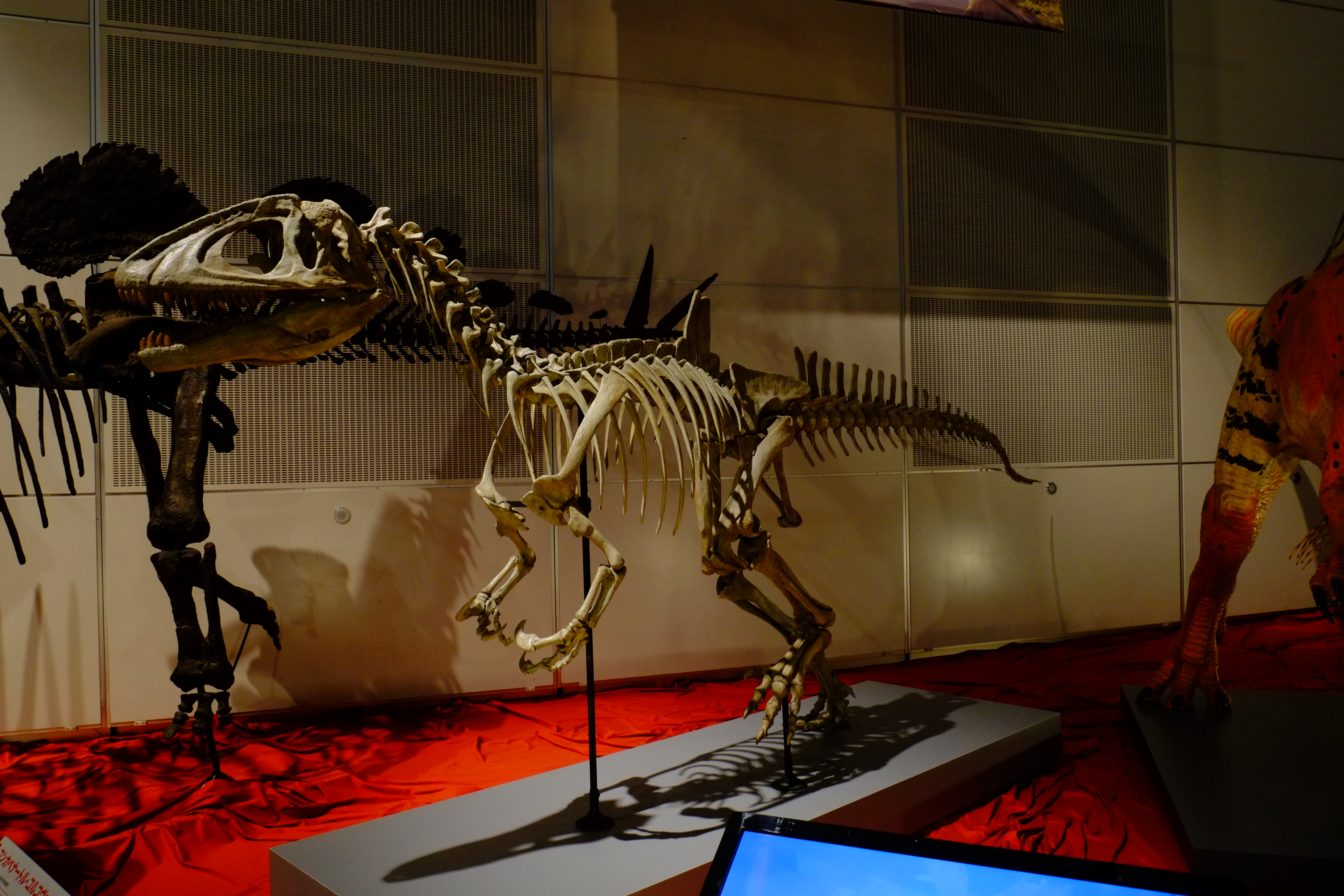 Concavenator